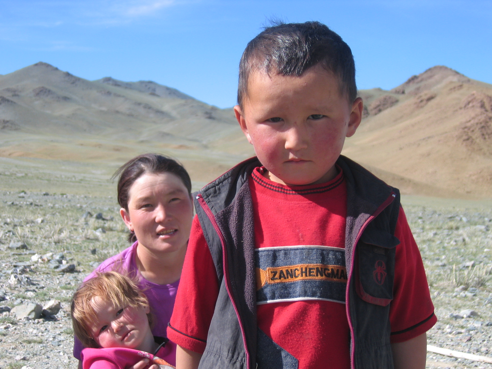 Mongolian boy and girl with mother